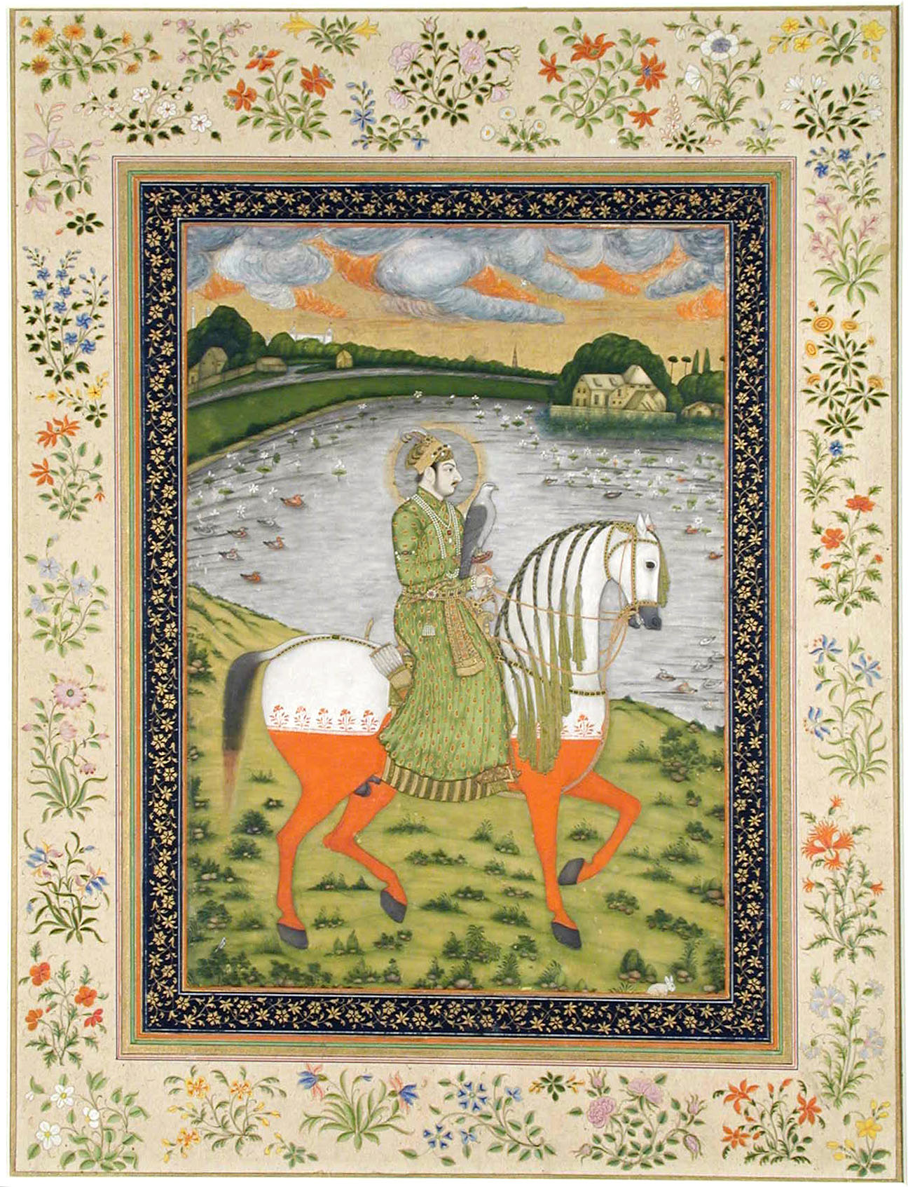 The Emperor Ahmad Shah, equestrian, in the hunting field 1750 San Diego Museum of Art